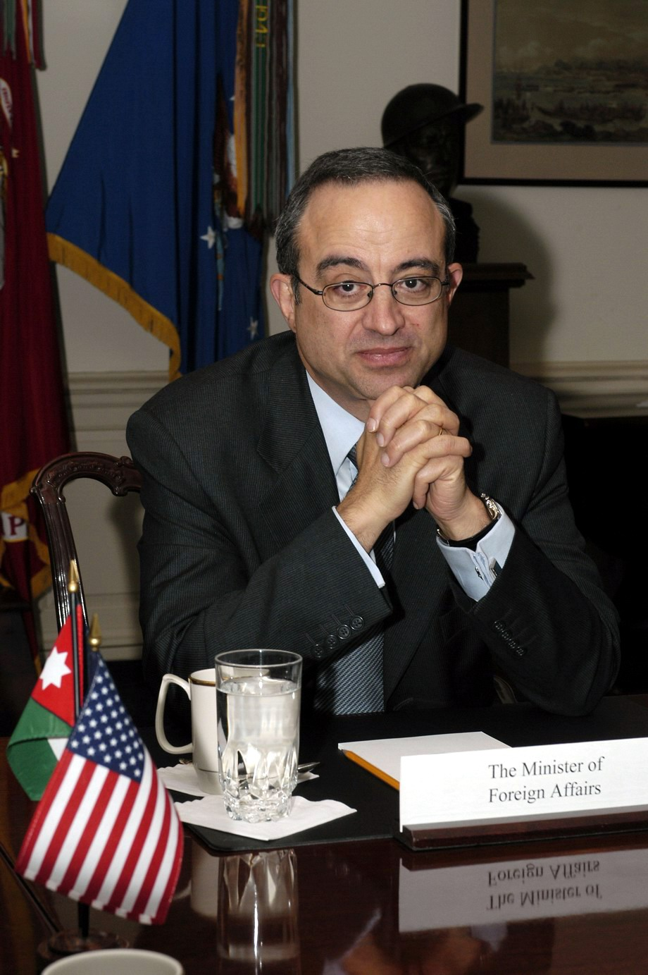 Jordanian Minister of Foreign Affairs Marwan Muasher meets with Deputy Secretary of Defense Paul Wolfowitz in the Pentagon on December 5, 2003. The two leaders are meeting to discuss defense issues of mutual interest.